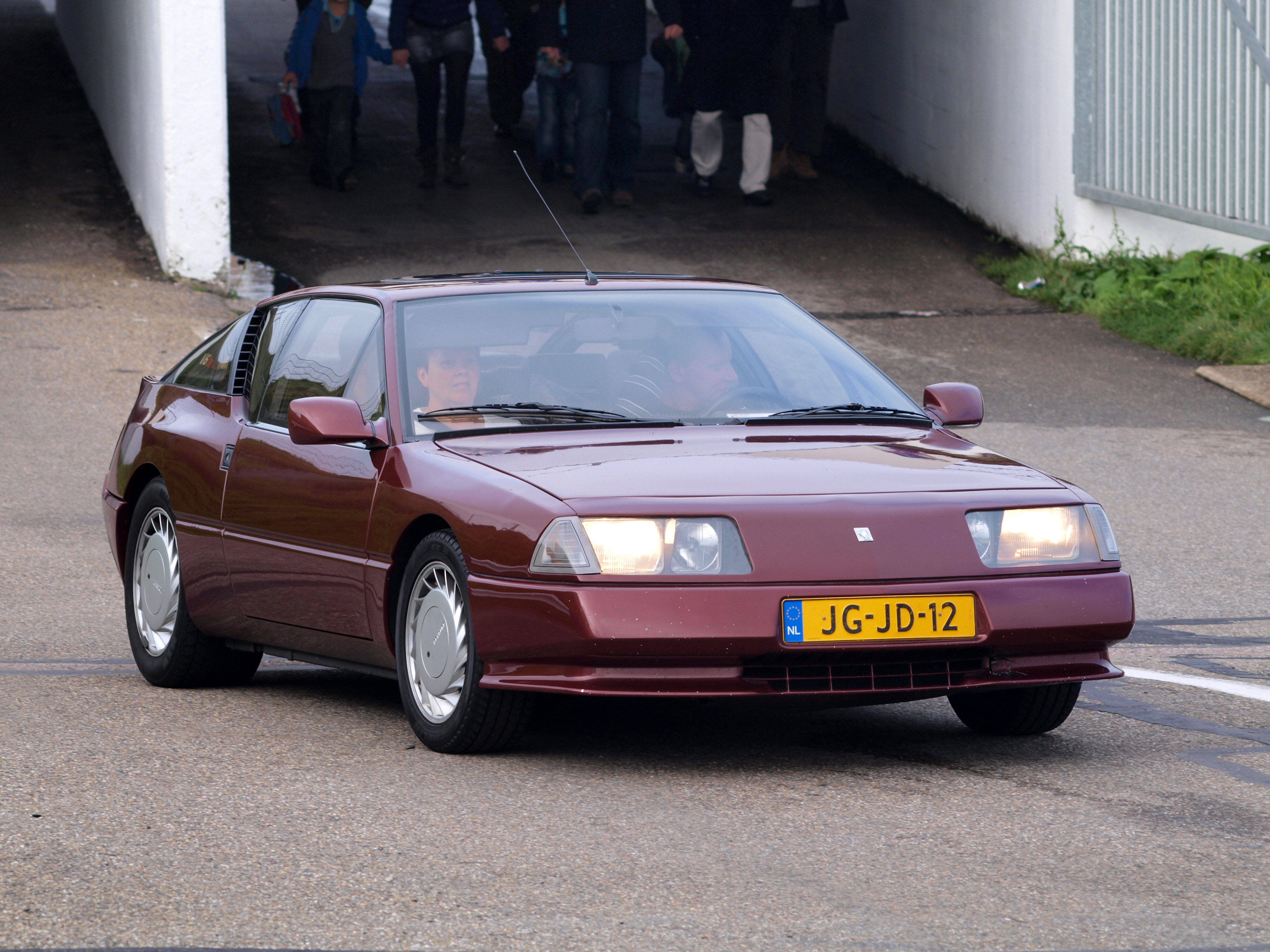 Photographed at the Nationaal Oldtimer Festival Zandvoort 2010, The Netherlands.